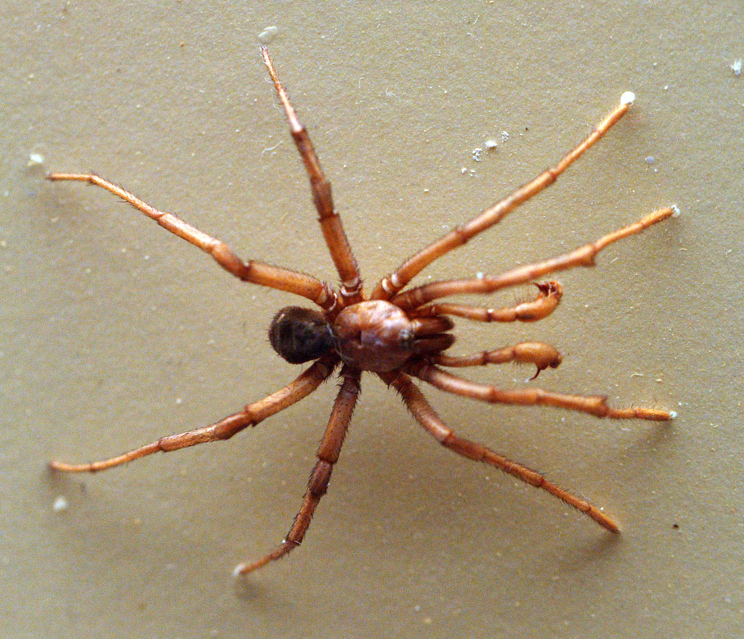 Specimen in the Australian Museum spider display.